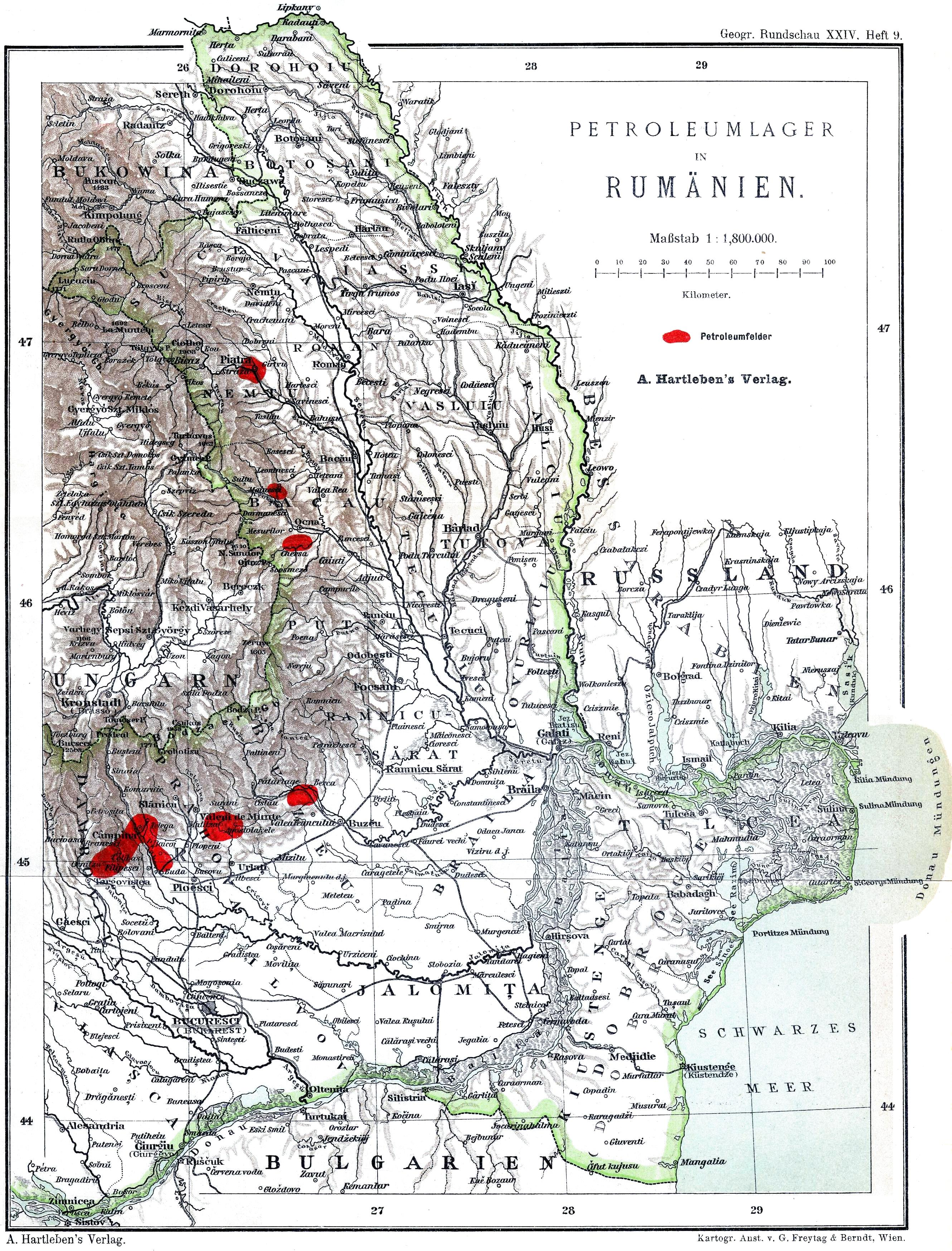 The Rumanian oil fields known in 1900